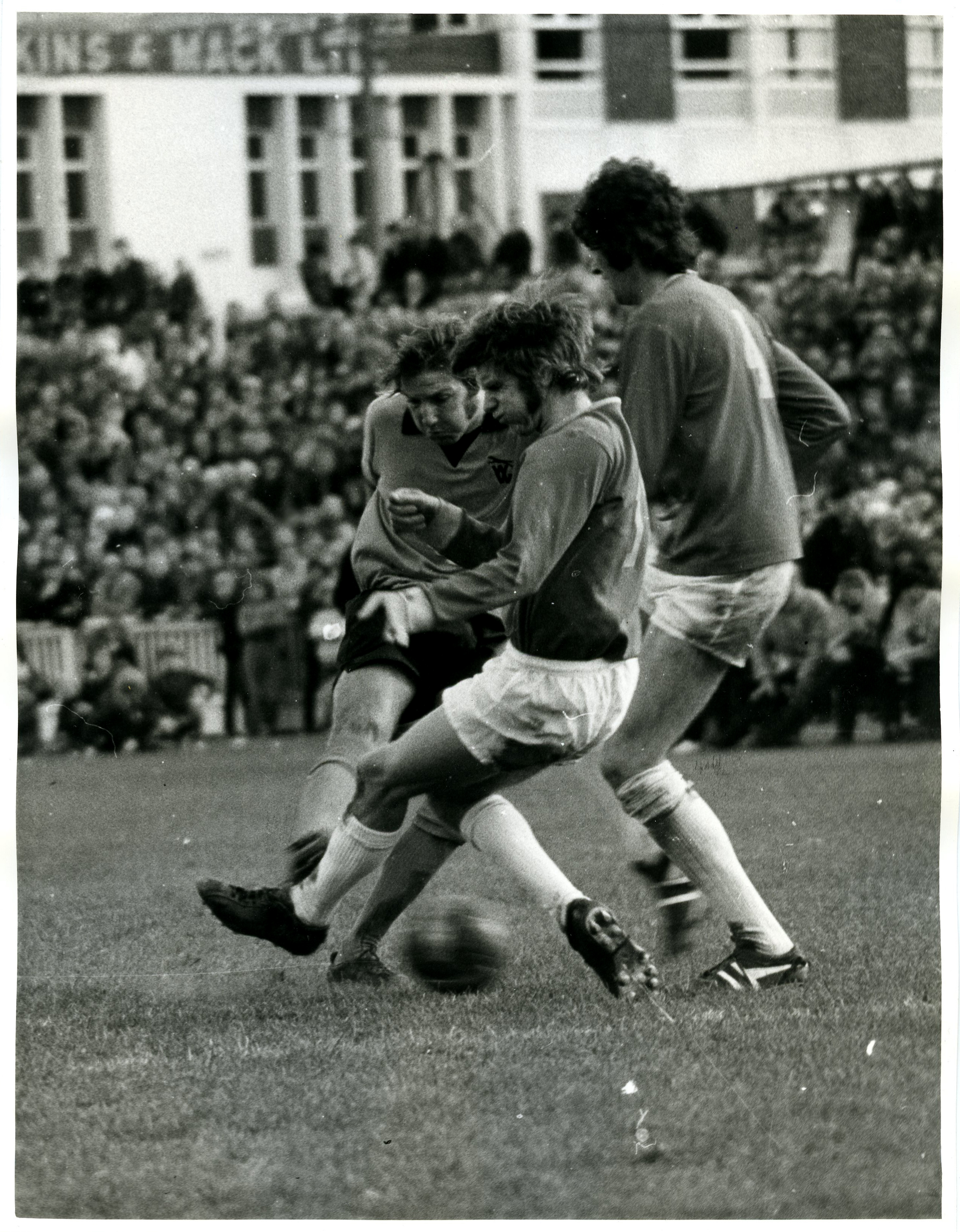 On June 5 1972, English football team Wolverhampton Wanderers (Wolves) competed in a friendly against Wellington at the Basin Reserve in Wellington, New Zealand. The match finished 6 nil in favour of Wolves. Wolves were touring New Zealand after having completed their English season, where they finished 9th in Division One which was the top tier in the English football ladder. The season ended in heartbreak as Wolves were beaten in the Uefa Cup Final by fellow English side Tottenham Hotspurs. The tour of New Zealand also involved a match against Auckland (Wolves won 3-2) and a match against the South Island (Wolves won 2-0). The images were taken by the National Publicity Studios. At the end of the Second World War, publicity became the responsibility of the Information Section of the Prime Minister's Department. The purpose of the National Publicity Studios was to provide advice to government departments and state agencies on the provision of photographic, art, and display services and in particular to assist in the production of publicity material aimed at conveying a favourable image of New Zealand. The National Publicity Studios was divided into two main sections: Photographic - comprising photographers, a laboratory, a photo library and facilities for audio-visual productions & Art - comprising graphic art, display art, display workshops and silkscreen. For further enquiries please References: AAQT 6539 W3537 16 L/5/11/13 For updates on our On This Day series and news from Archives New Zealand, follow us on Twitter Material supplied by Archives New Zealand